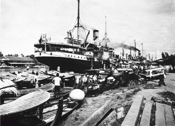 KPM steamers along the quay at the Martapura river